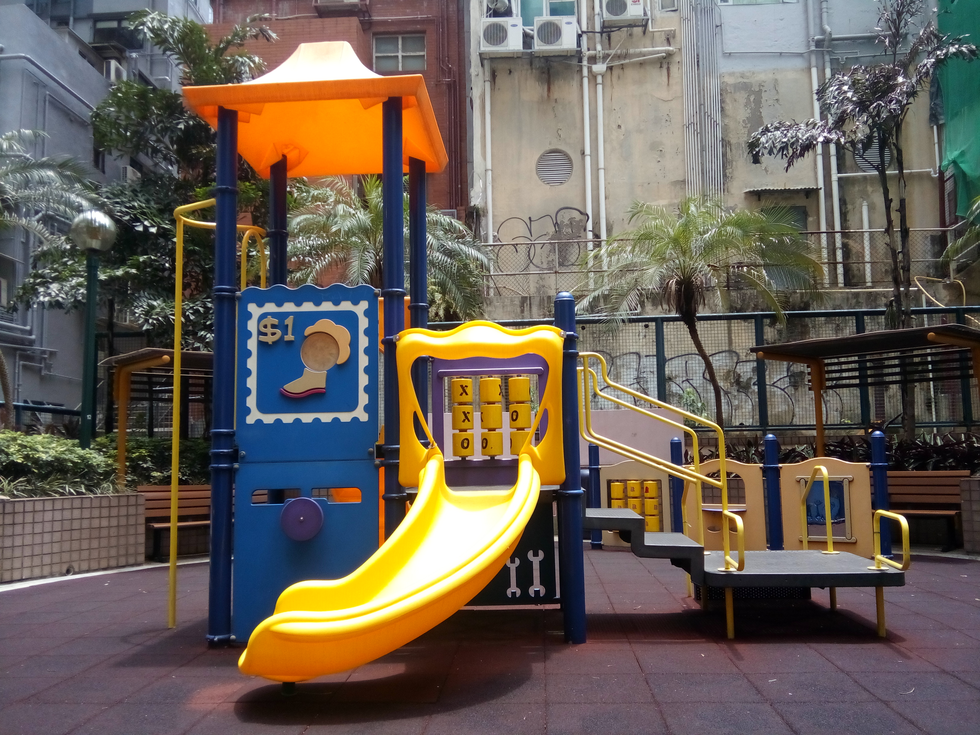 HK 西營盤 Sai Ying Pun 第三街遊樂場 Third Street Playground 公園 LCSD park green plants n trees in August 2017